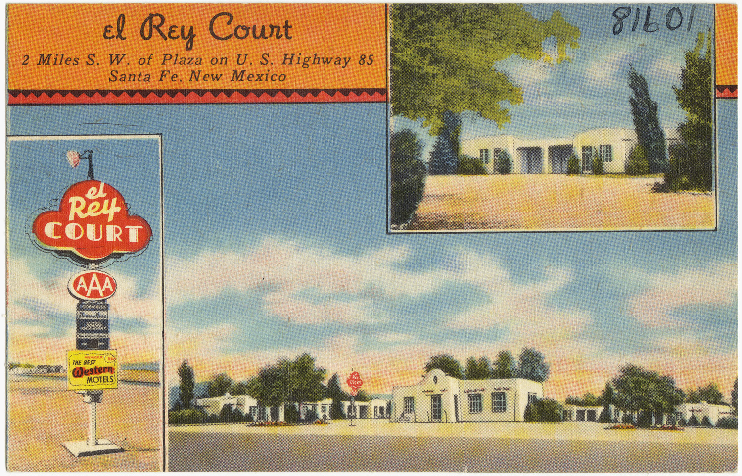 File name: 06_10_015695 Title: El Rey Court, 2 miles S. W. of plaza U.S. Highway 85, Santa Fe, New Mexico Created/Published: Alfred Mc Garr Adv. Ser., Albuquerque, N. M. Date issued: 1930 - 1945 (approximate) Physical description: 1 print (postcard) : linen texture, color ; 3 1/2 x 5 1/2 in. Genre: Postcards Subjects: Motels Collection: The Tichnor Brothers Collection Location: Boston Public Library, Print Department Rights: No known restrictions Flickr data on 2011-08-18: Camera: Epson Exp10000XL10000 Tags: postcard, tichnor brothers, New Mexico License: CC BY 2.0 User: Boston Public Library